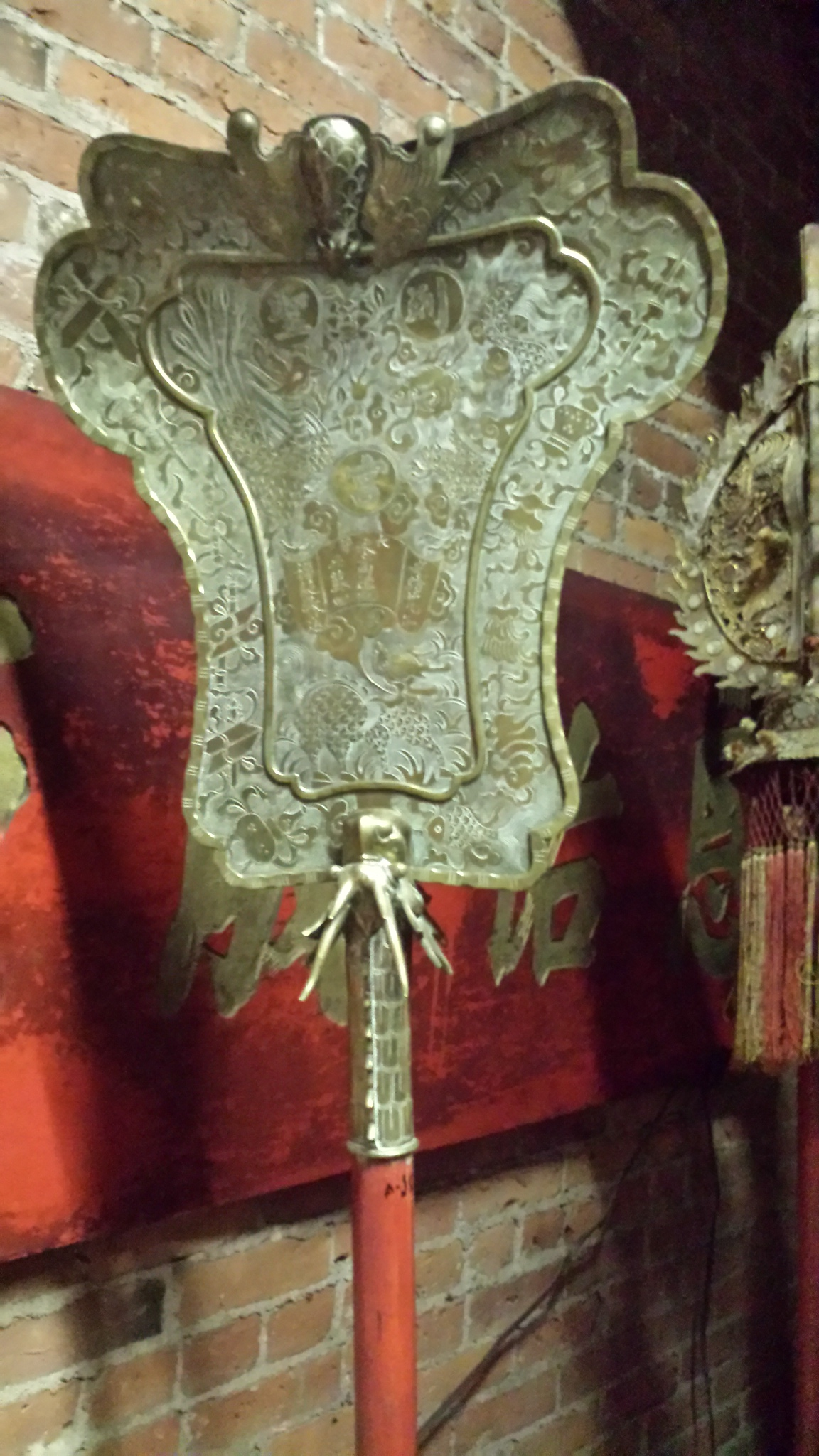 William Collins, photo